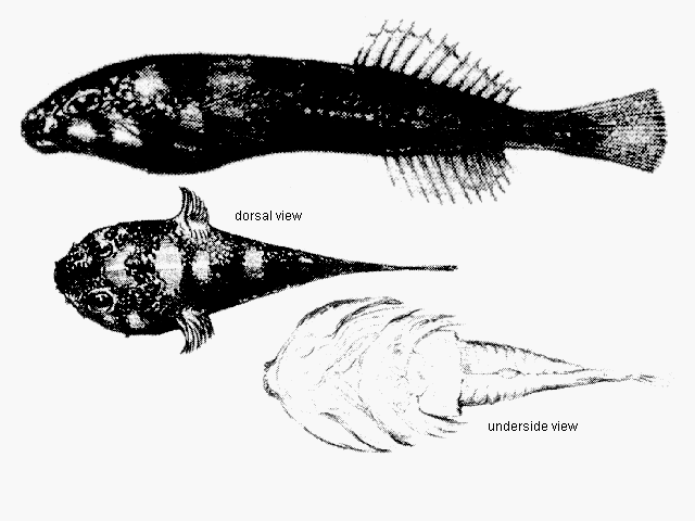 Gobiesox marmoratus